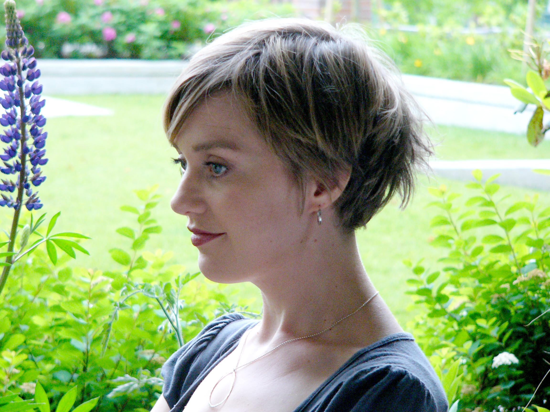 Judy at Eliane is responsible for this marvelous creation.